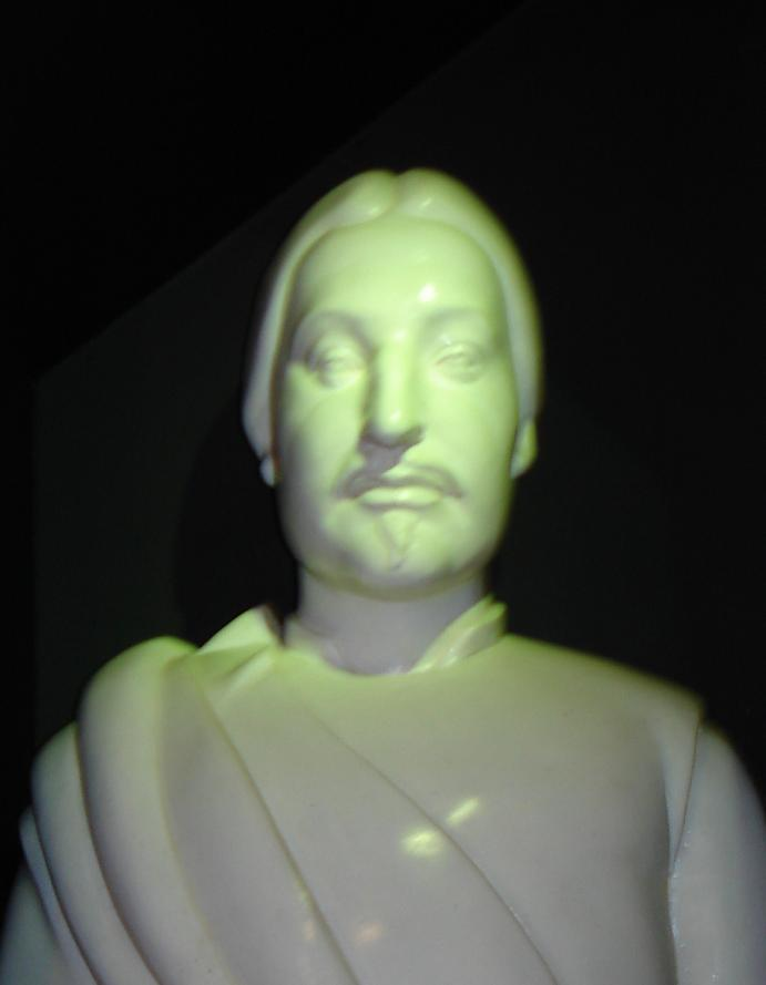 Picture taken by user of a bust of Earl William (Uilleam) of Ross, in the Tain Museum.